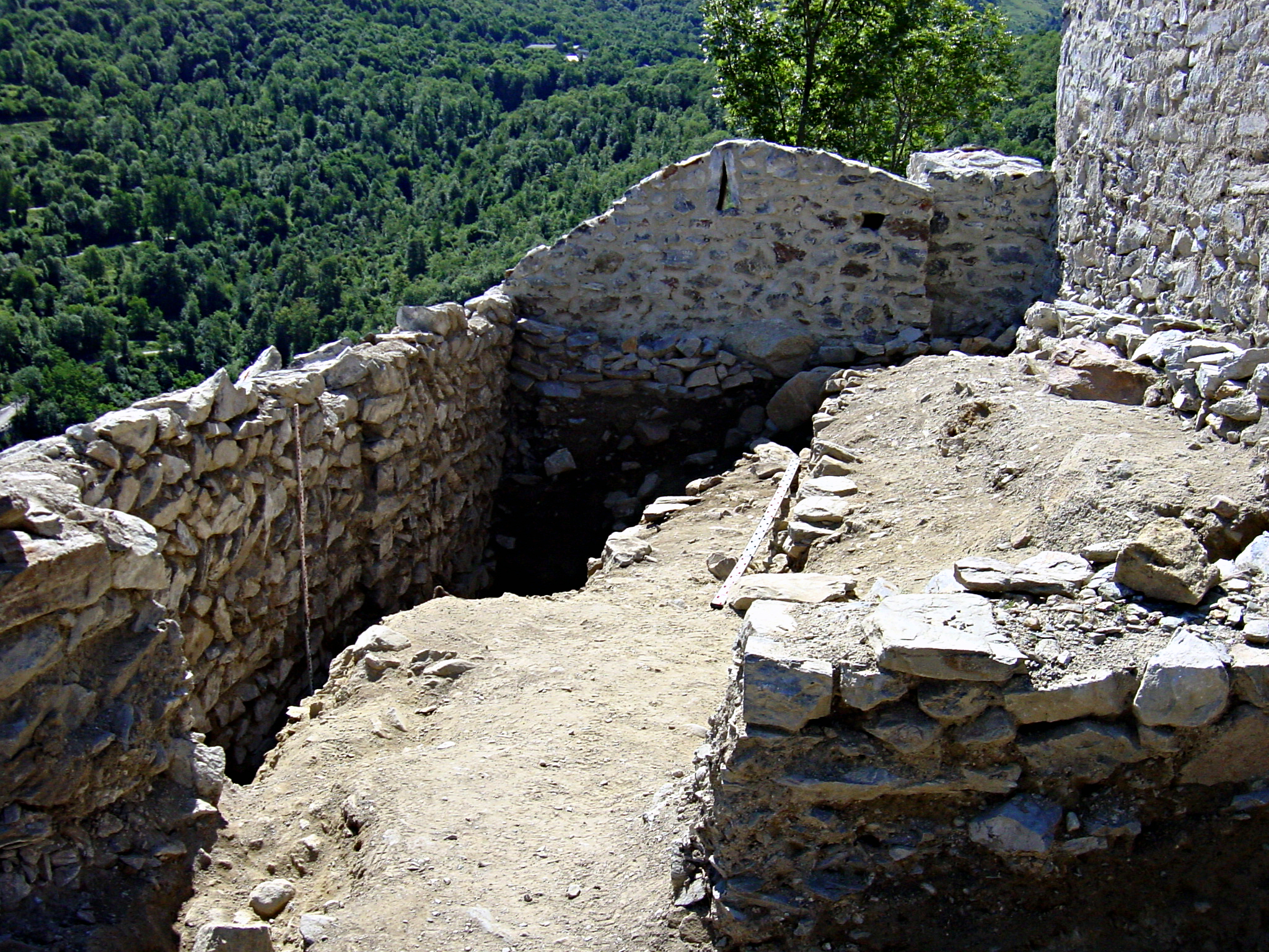 Inside the ruined castle of Montréal-de-Sos (Auzat, Ariège, France).